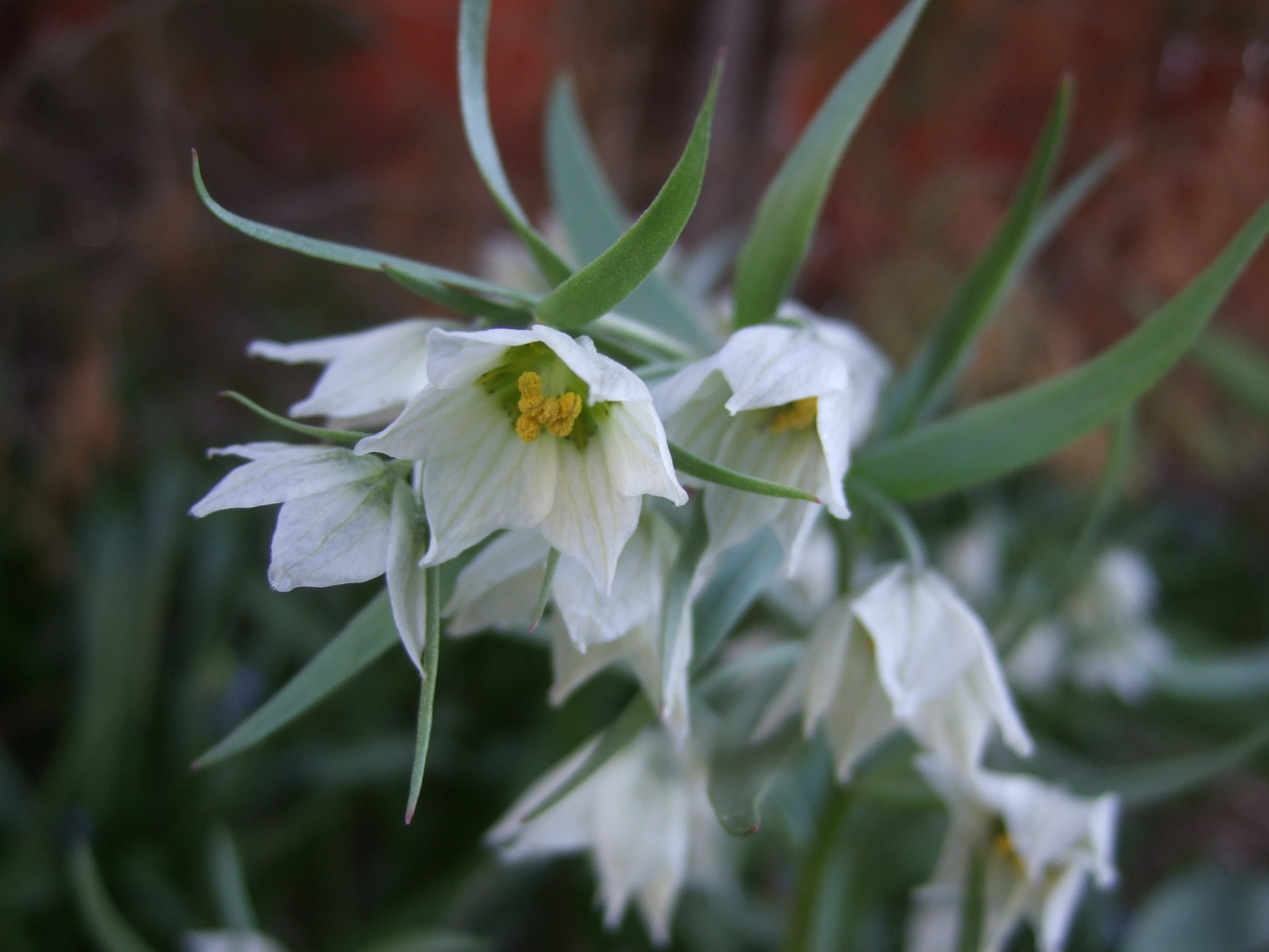 Fritillaria bucharica